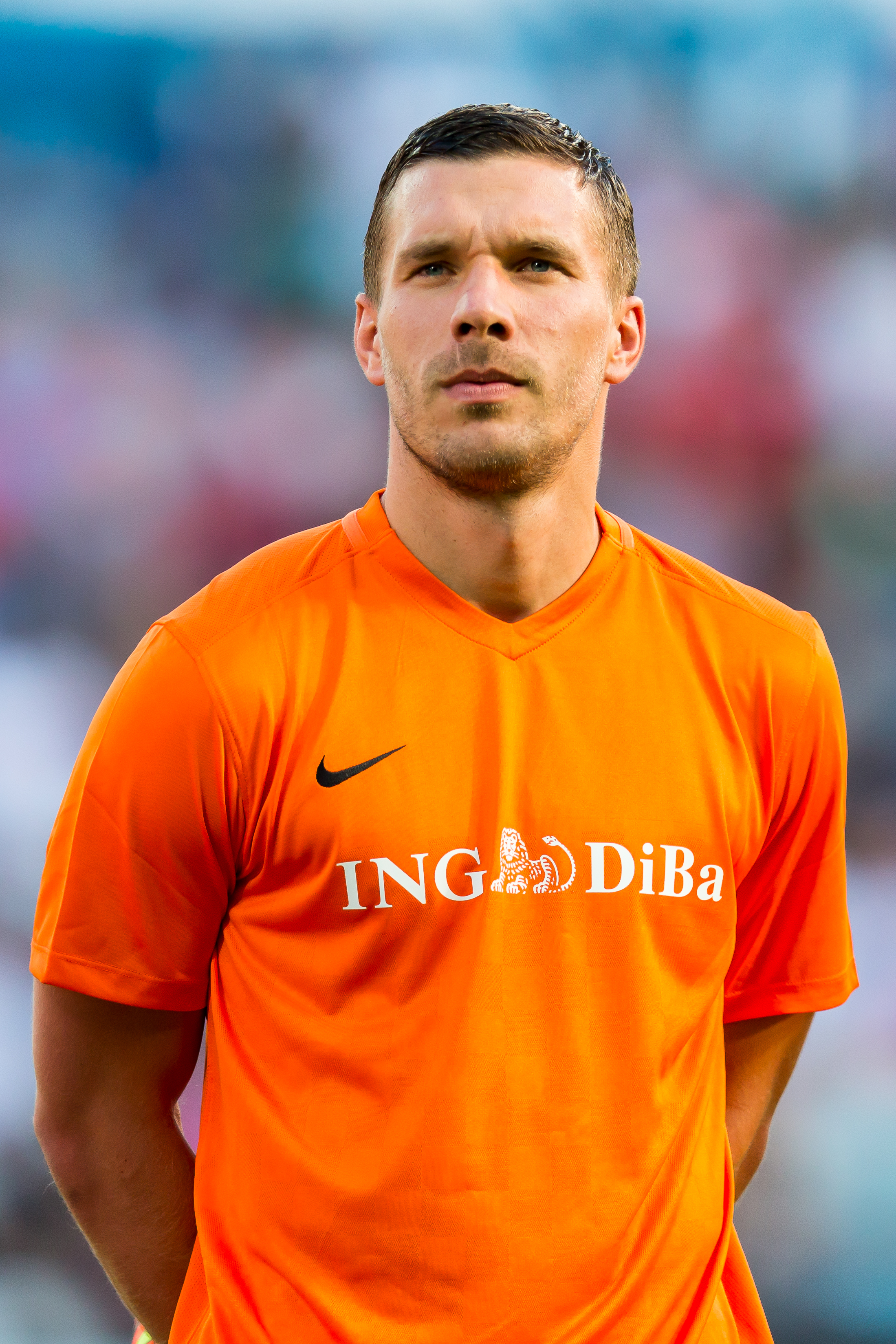 during football match between Nowitzki All Stars and Nazionale Piloti in honor of Michael Schumacher at Opel Arena, Mainz, Rheinland Pfalz, Germany on 2016-07-27, Photo: Sven Mandel